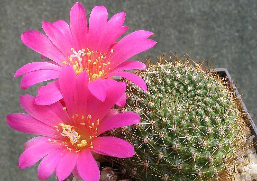 Rebutia violaciflora Backeb - cultivated plant (as R. violaciflora var. lucida) from own collection.